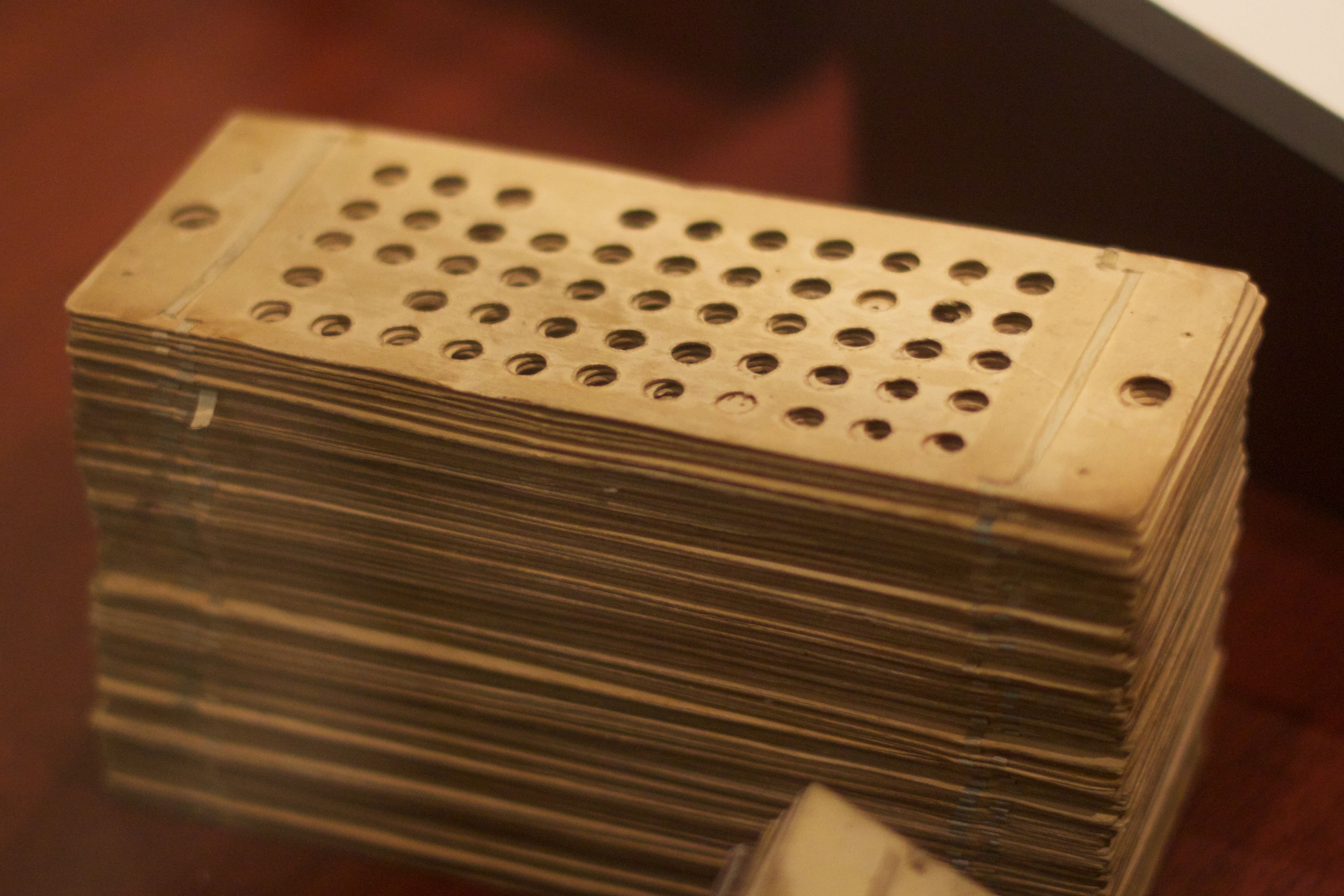 Invention of Charles Babbage